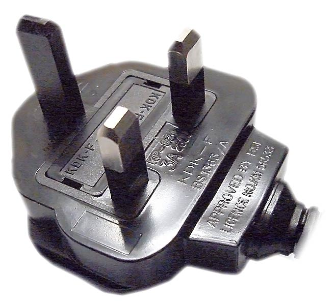 Image of a BS 1363 type electrical plug, with an ISOD (Insulated Shutter Opening Device) which is used when an earth pin is not required.